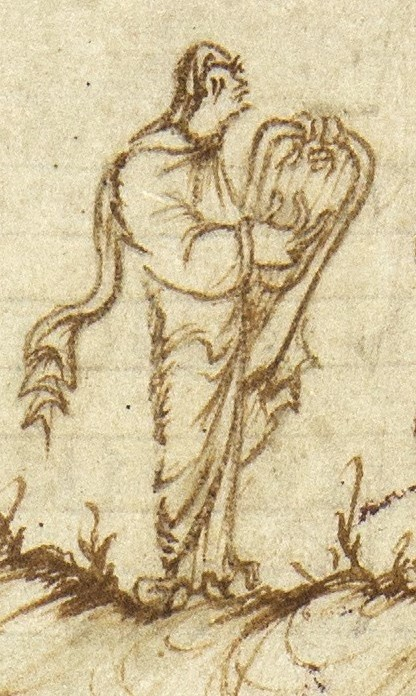 Described in the Utrecht Psalter as a psaltery, this was a type of lyre or cithara. Drawn by an Anglo-Saxon in Reims.